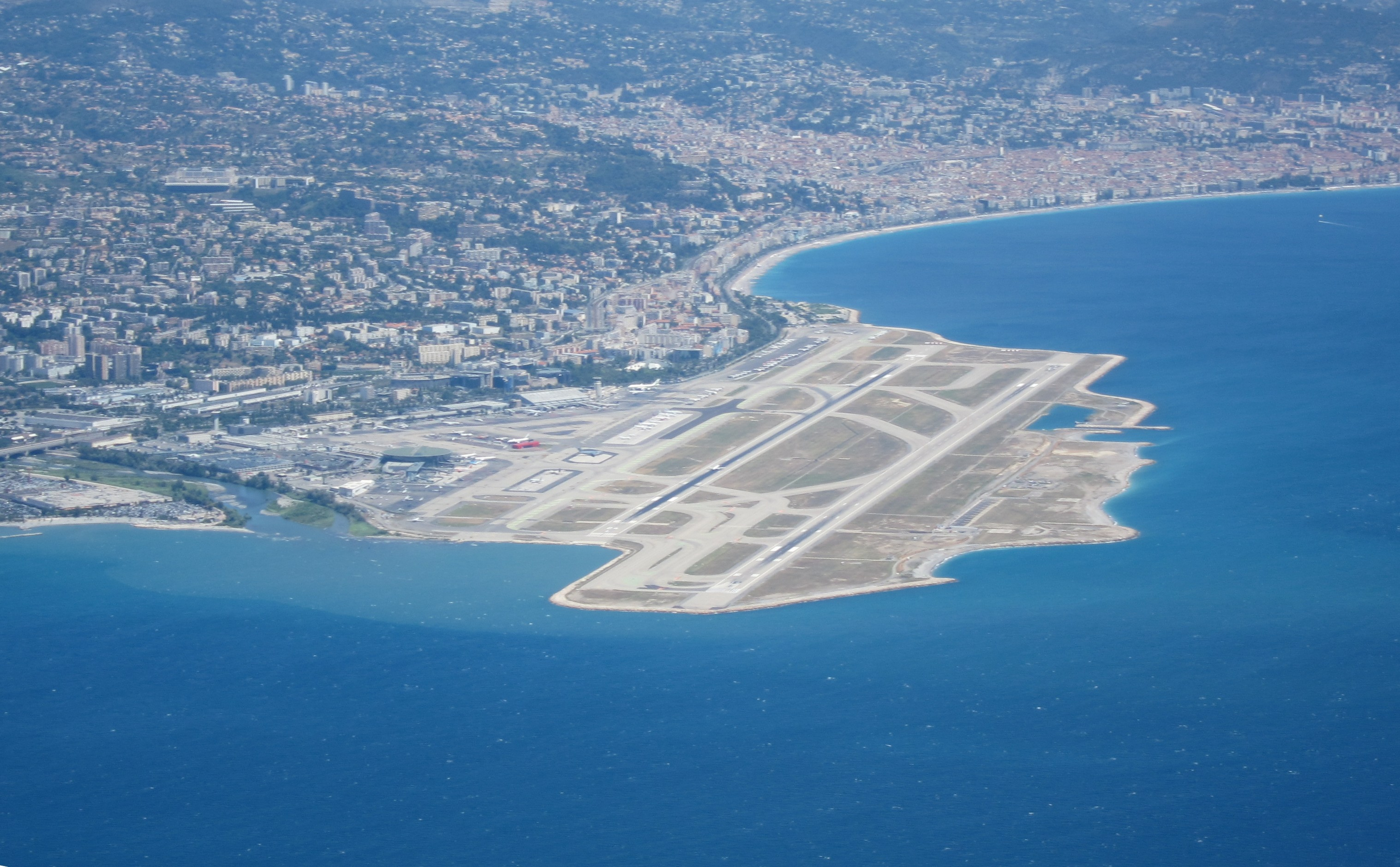 Nice-Côte d’Azur airport (NCE / LFMN) seen from the sky, looking in the north-east direction. The mouth of the Var is seen on the left, and Nice is visible in the background.